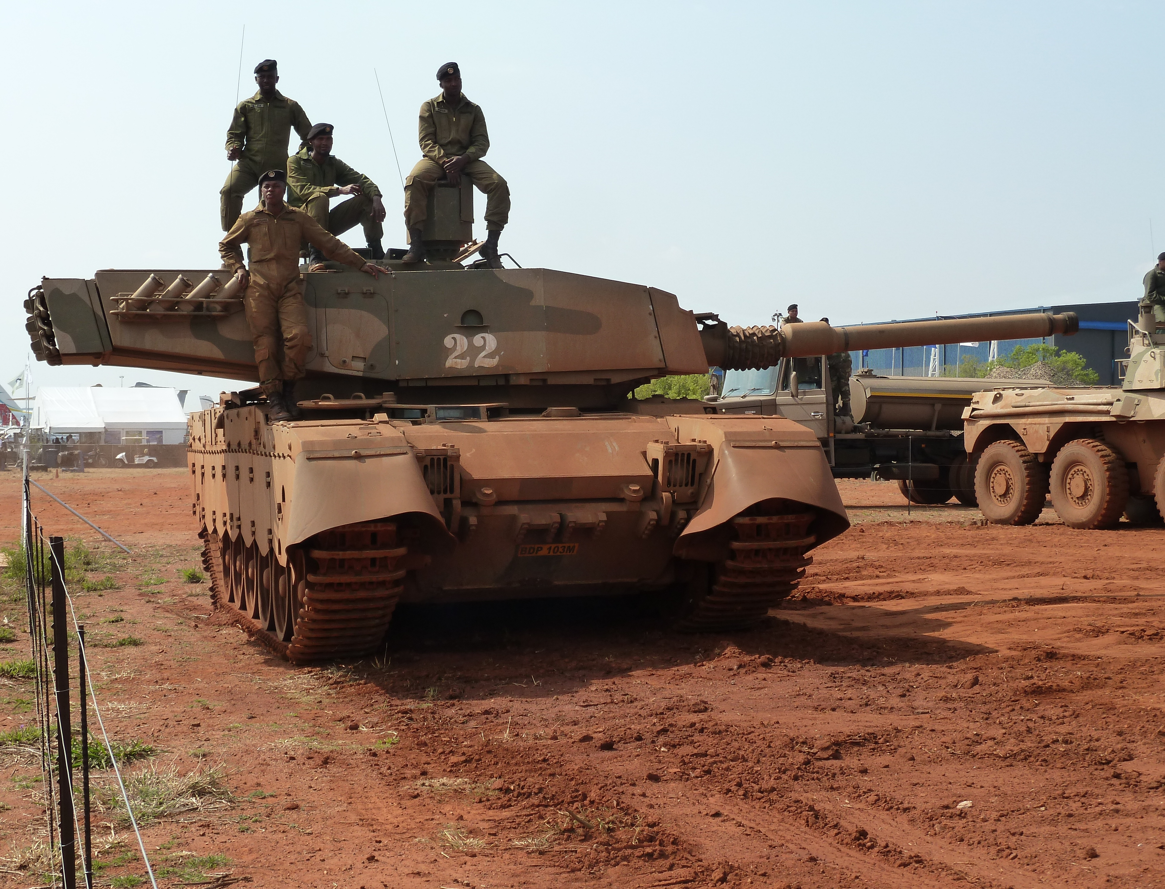 Olifant Mark 1b tank at Waterkloof AFB, waiting to depart on short demonstration circuit